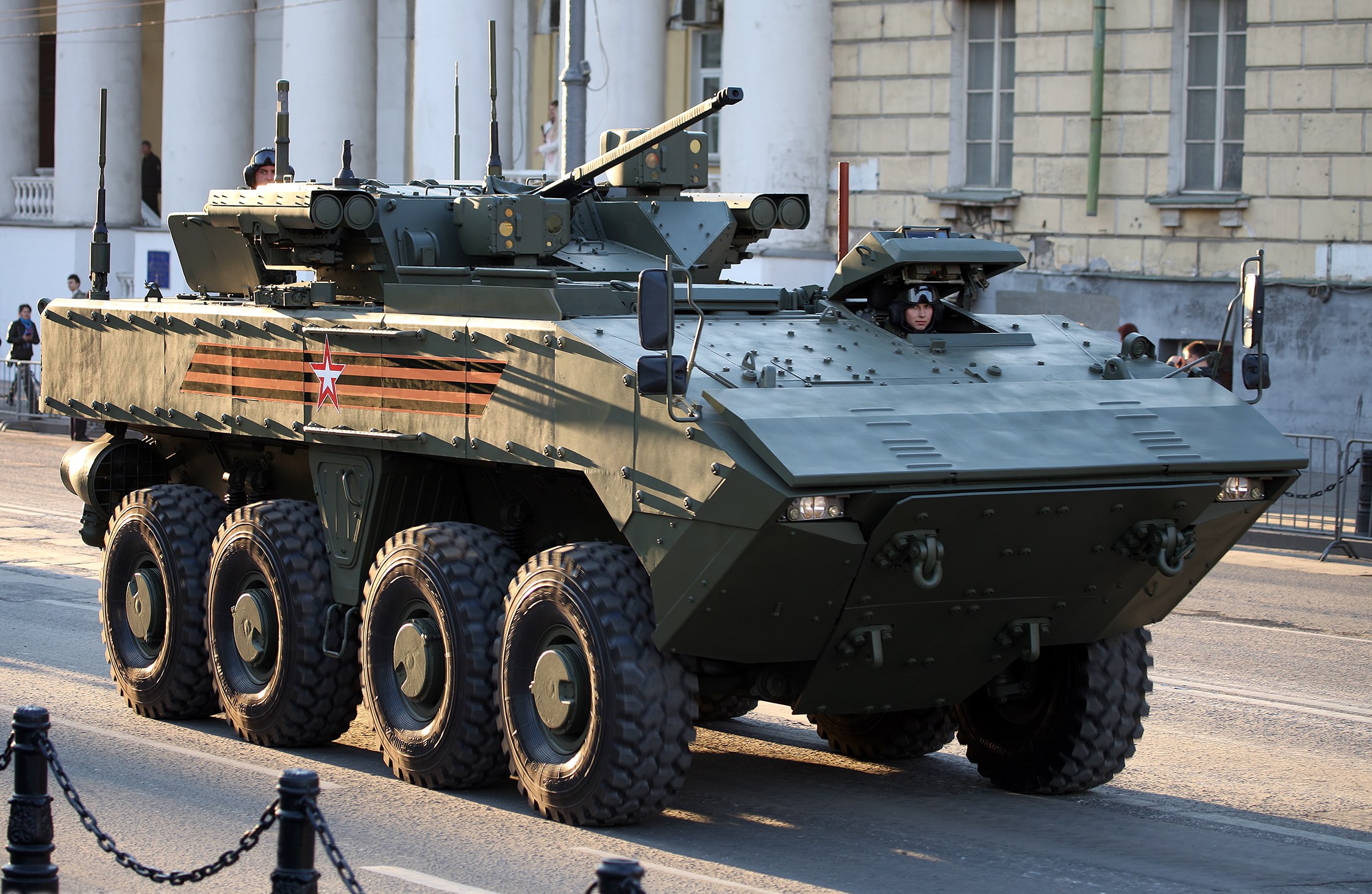 Wheeled IFV BMP-K K-17 VPK-7829 on unified wheeled combat platform Bumerang